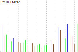 Market Facilitation Index